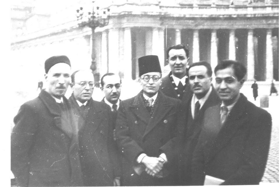 Bourguiba, Ben Youssef, Hedi Nouira and Mongi Slim with other nationalists in Roma.